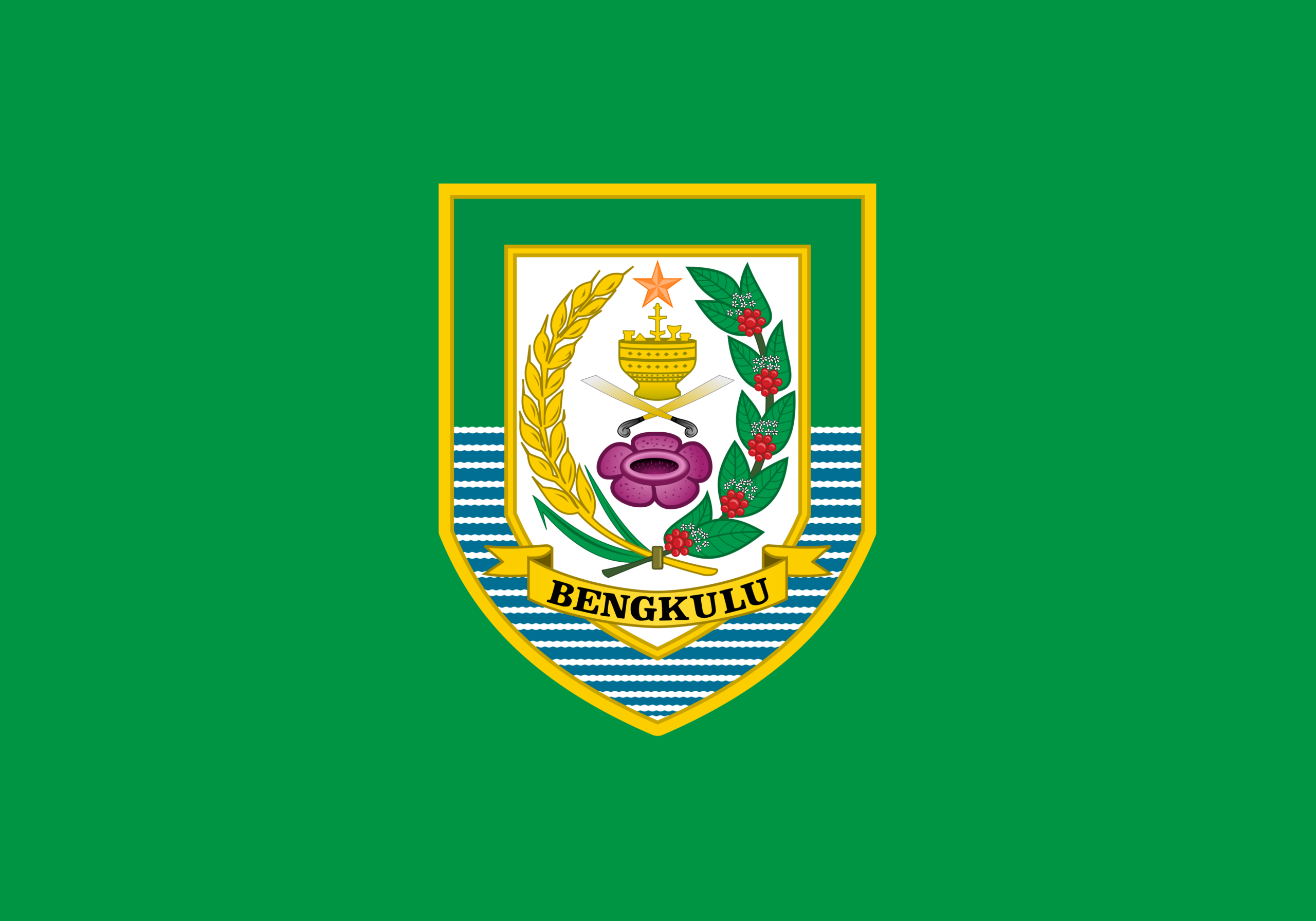 Flag of Bengkulu, See legal regulation about the flag.